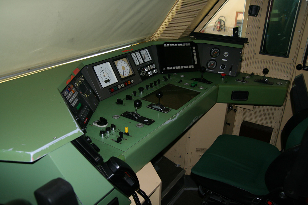 The driver's cab on an ÖBB class 1822